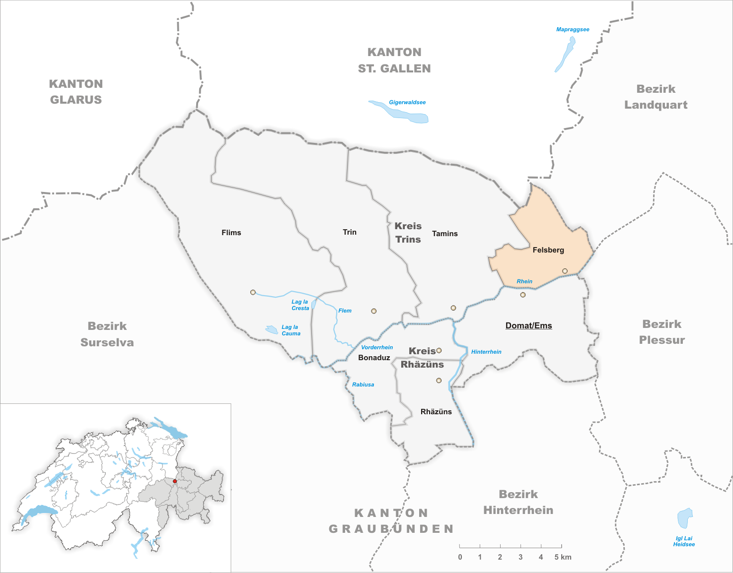 Municipality Felsberg